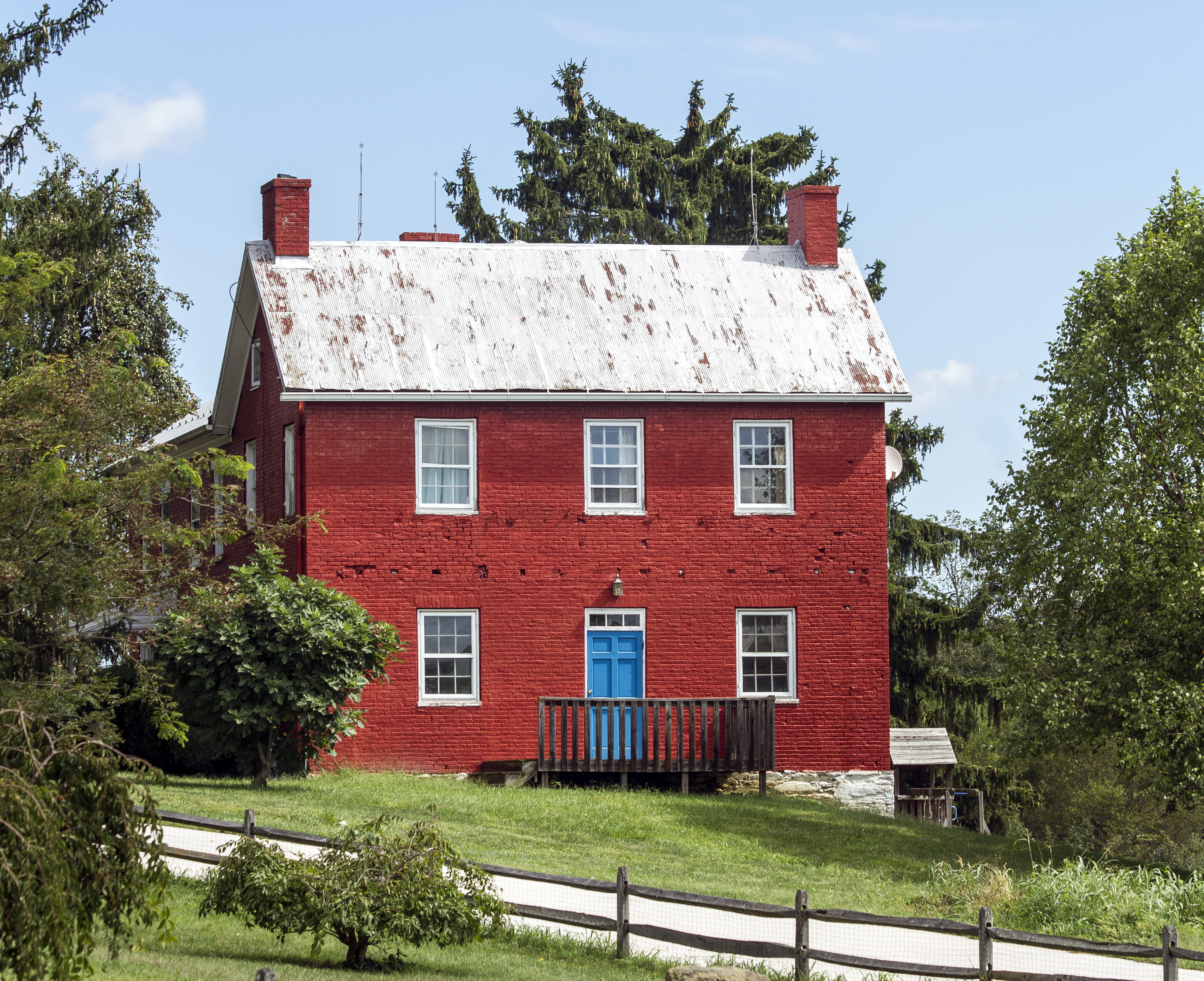 The house at the Routzahn-Miller Farmstead, west of Middletown, Maryland, USA